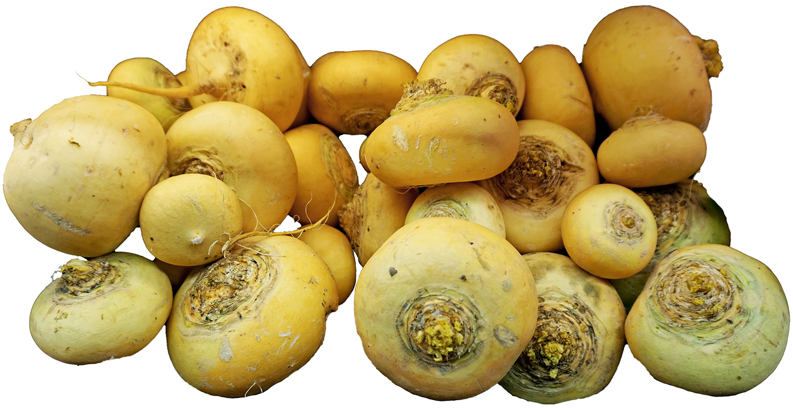 A pile of turnips in Citymarket, Jyväskylä.